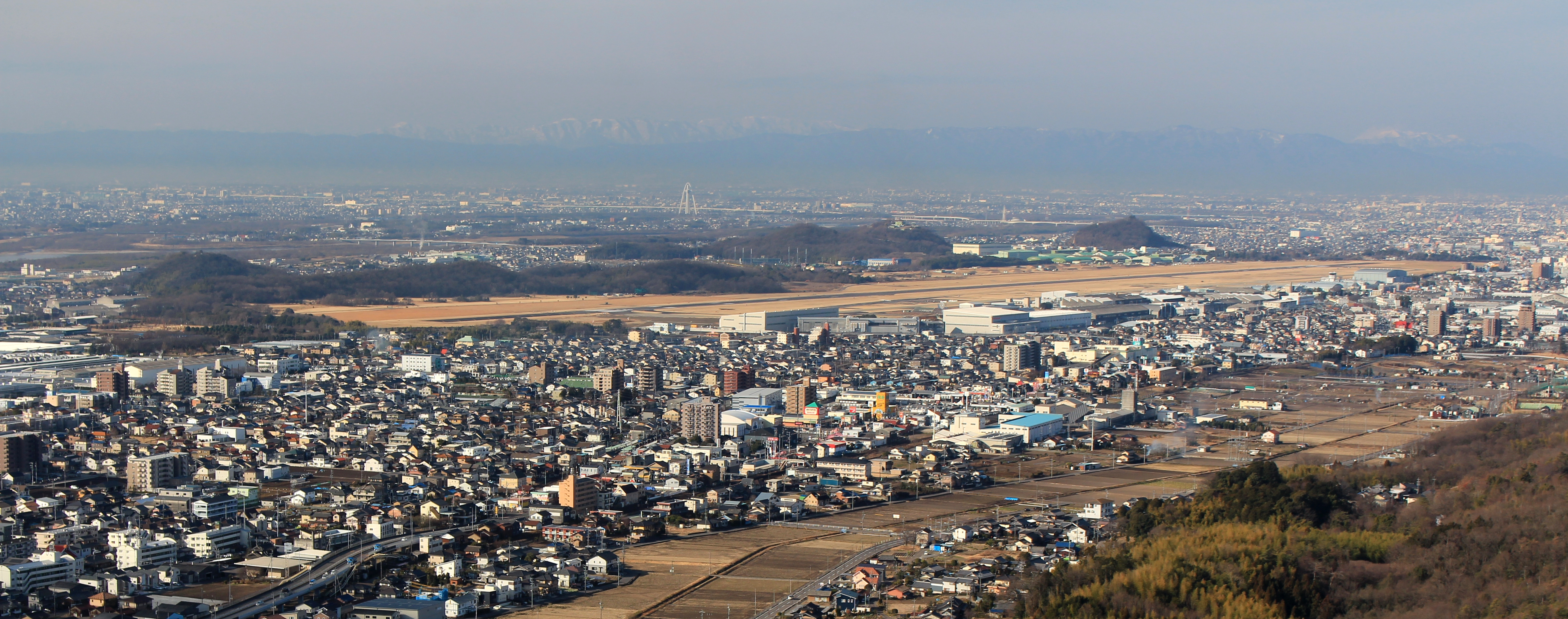 Gifu Airbase seen from Mount Atago in Kakamigahara, Gifu prefecture, Japan.